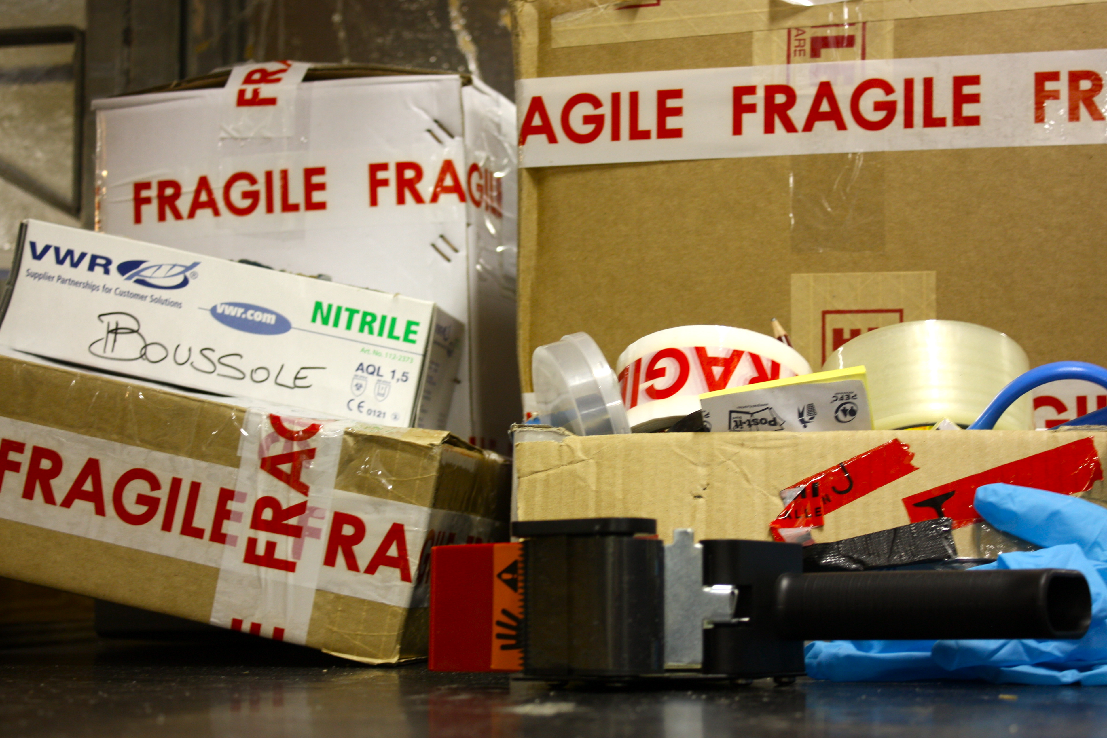 On July 25, 2011, ICESCAPE scientists packed up fragile lab equipment as the icebreaker ship steamed home after finishing collecting science data. The ICESCAPE mission, or "Impacts of Climate on Ecosystems and Chemistry of the Arctic Pacific Environment," is NASA's two-year shipborne investigation to study how changing conditions in the Arctic affect the ocean's chemistry and ecosystems. The bulk of the research takes place in the Beaufort and Chukchi seas in summer 2010 and 2011. Credit: NASA/Kathryn Hansen For updates on the five-week ICESCAPE voyage, visit the mission blog at